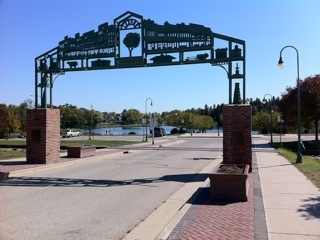 Cravath Lakefront Park